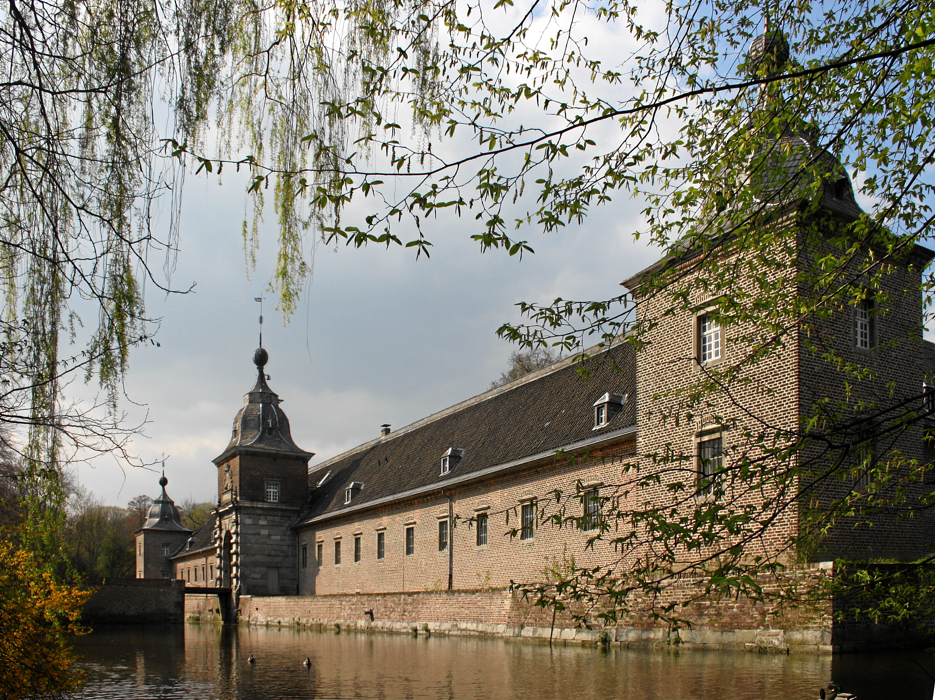 Düsseldorf, Germany. Castle Heltorf, outer bailey from South.